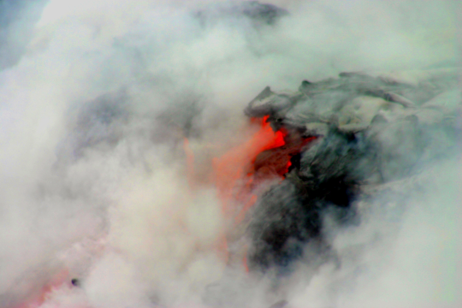 Pāhoehoe Lava is entering Pacific at The Big Island of Hawai, Hawaii Volcanoes National Park. Photograped by Brocken Inaglory in April of 2005.